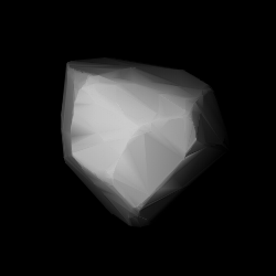 3D convex shape model of 5208 Royer, computed using light curve inversion techniques. J. Hanuš, J. Ďurech, M. Brož, B. D. Warner (June 2011). "A study of asteroid pole-latitude distribution based on an extended set of shape models derived by the lightcurve inversion method". Astronomy and Astrophysics 530: A134. ISSN 0004-6361. arXiv